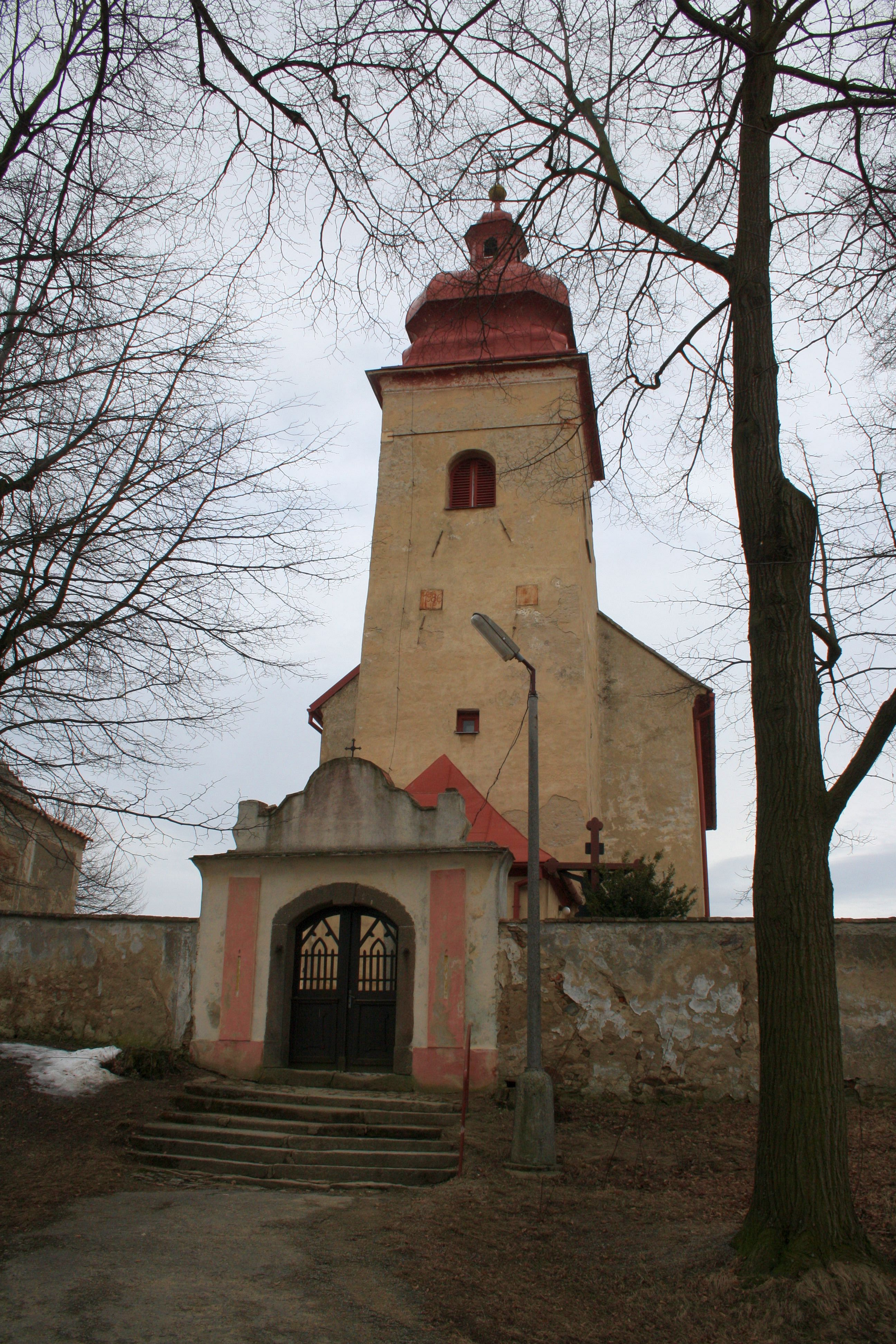 Front view of Saint Martin church in Čáslavice.